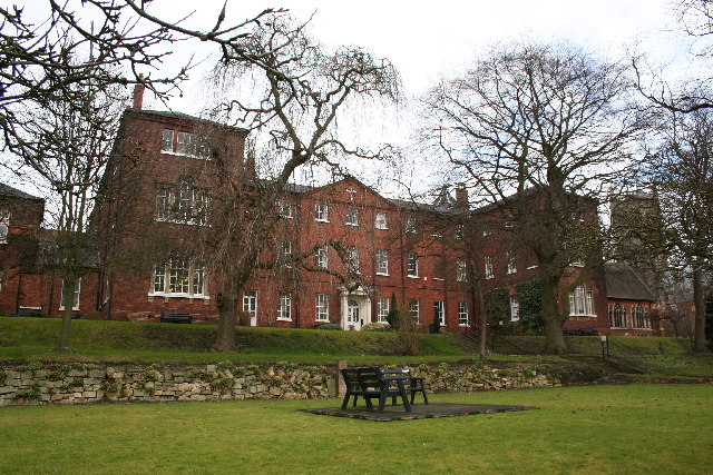 Chad Varah House. Named after Chad Varah, founder of the Samaritans who studied here when it was a Theological College. The terracing is reputedly part of the Roman terracing, there were two medieval churches on this site at one time and later the site of the Hare and Hounds Inn, later the Fighting Cocks Inn which was demolished to make way for this building. It started life as the County Hospital by John Carr in 1776 until superseded by the new County Hospital in 1878 and was known as the Bishop's Hostel until renamed in the late 20th century. It is now part of the University of Lincoln Cathedral campus, home to Conservation & Restoration and History of Art & Design.